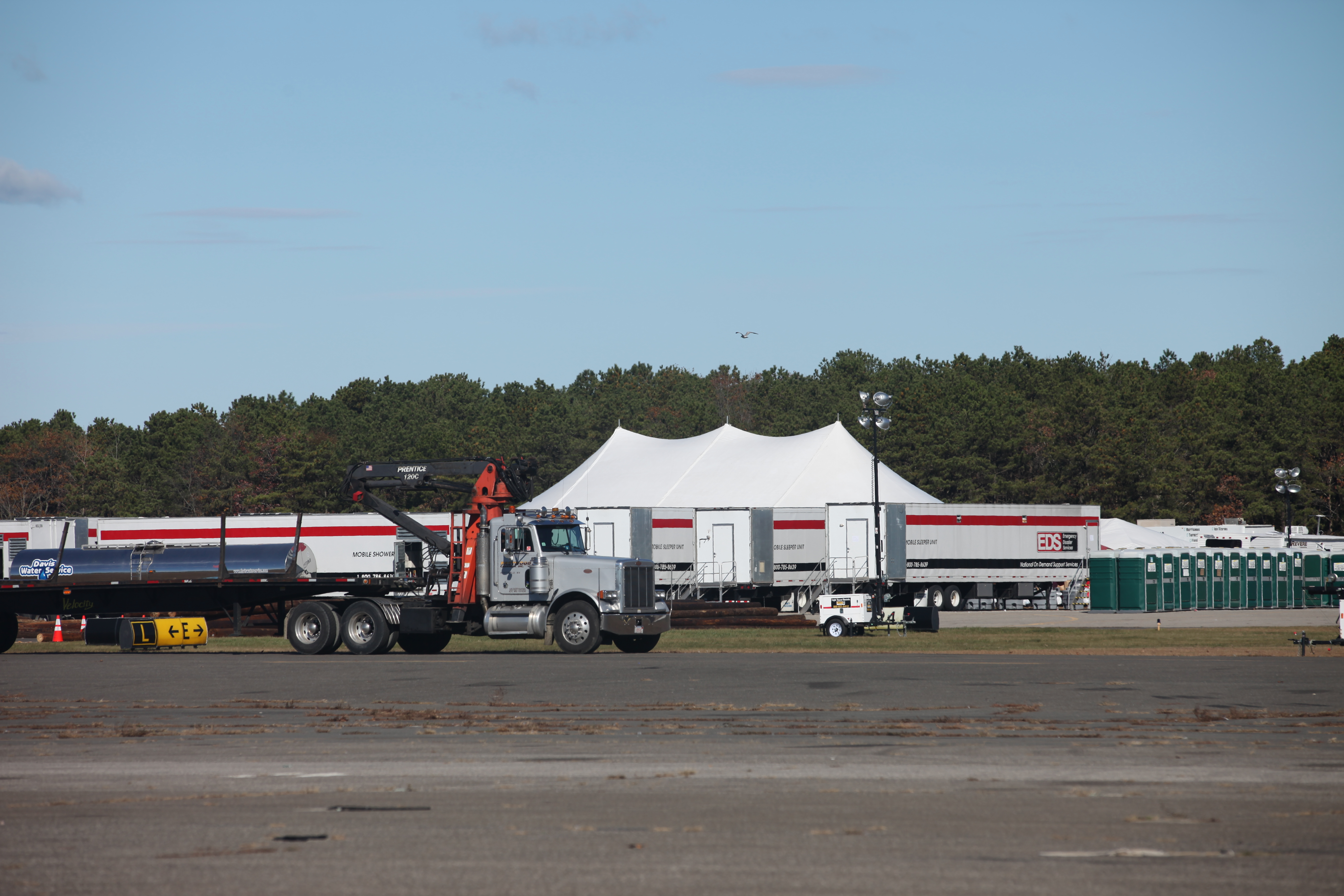 One of FEMA's staging area and command centers based at Brookhaven airport on Long Island, NY in the aftermath of storm Sandy. Photo credit: Greg Thompson/USFWS Stay informed